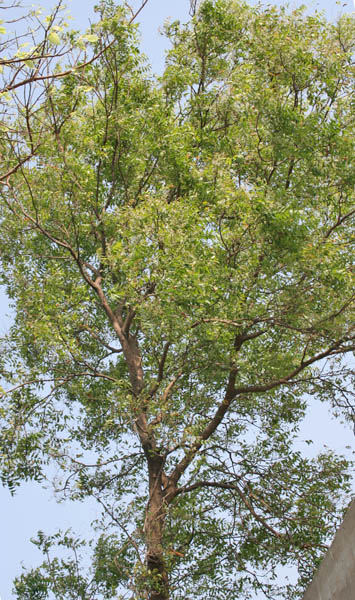 Neem Azadirachta indica in Kolkata, West Bengal, India.